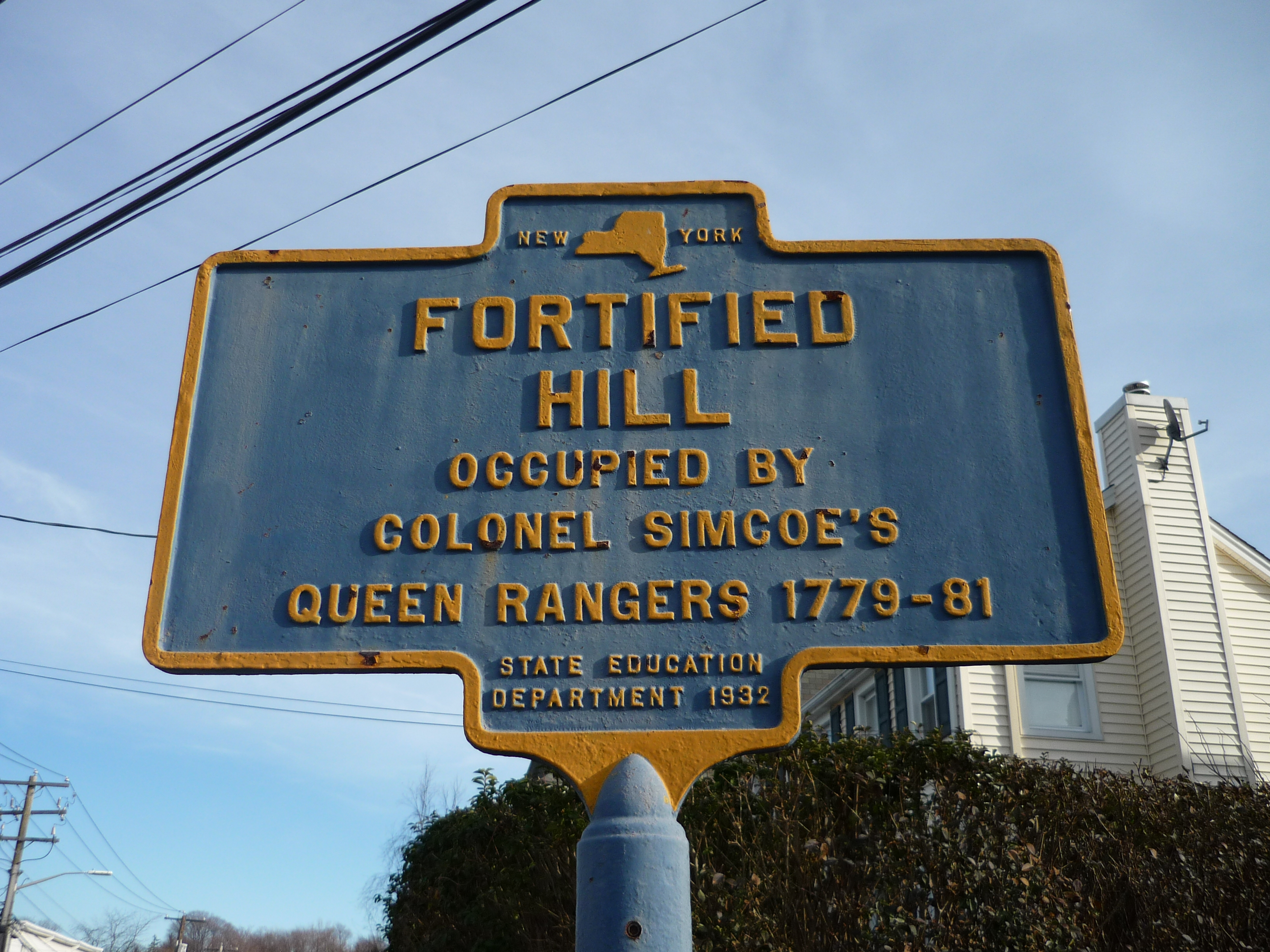 Fortified Hill NYS Education Department Marker, Oyster Bay, New York